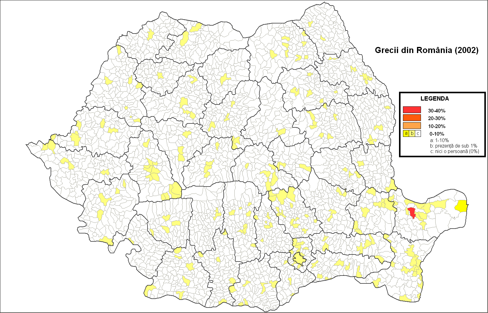 The distribution of the Greeks in Romania (census 2002)